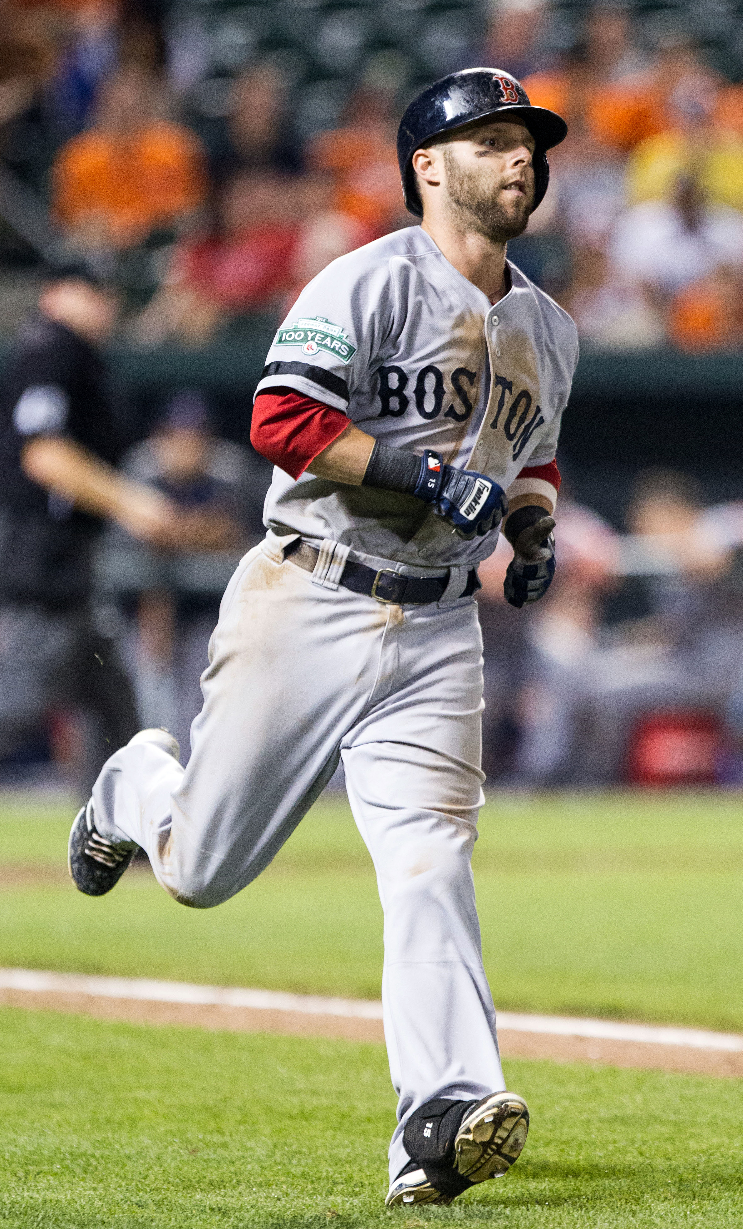 Dustin Pedroia playing for the Boston Red Sox at Baltimore Orioles August 14, 2012